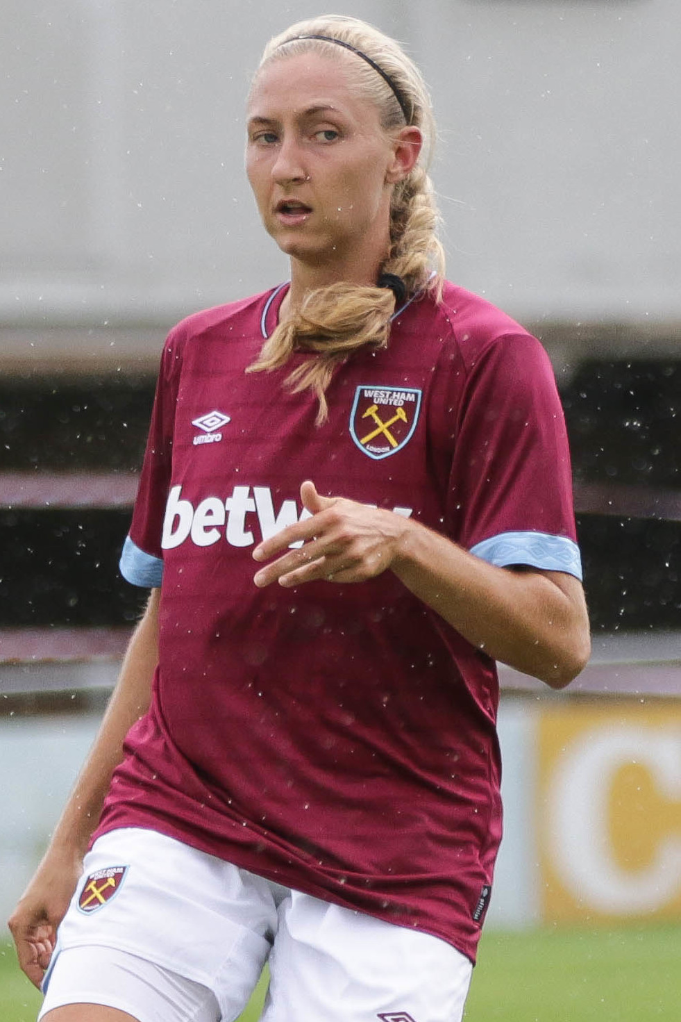 Lewes FC Women 0 West Ham Utd Women 5 pre season 12 08 2018-355.jpg